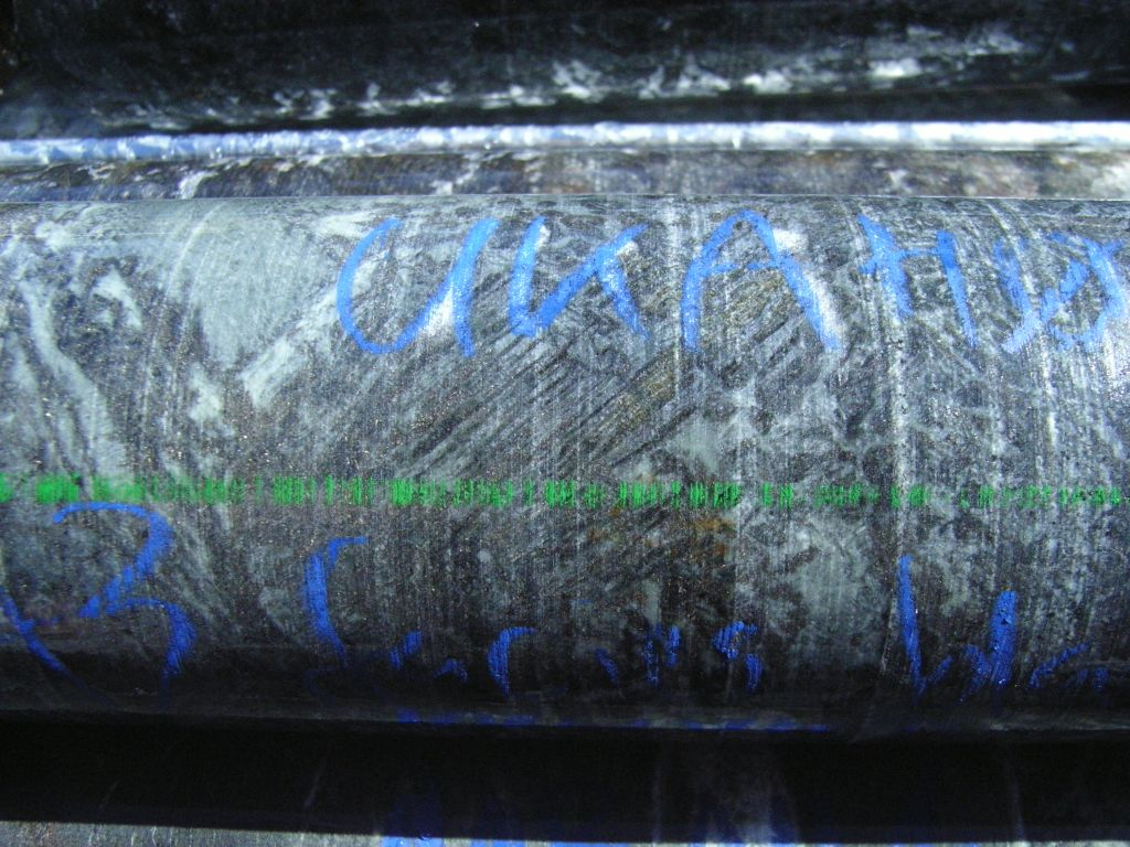 Photo by user:Rolinator. Taken August 2006. This photo shows typical A3 facies bladed olivine spinifex, Widgiemooltha Komatiite, Widgiemooltha Dome, Western Australia. The sample is from drill core from drillhole WDD18, at approximately 139m downhole. The olivine crystals form sheafs or booklets of plated crystals within glass, which has since been metamorphosed to a chlorite-actinolite-serpentine-magnetite assemblage and sulfidated from magnetite to pyrite. It is rare to see such perfectly preseved spinifex textures within serpentinised ultramafic rocks. NB: Text on the drill core "UKAH0" is local logging code, U = Ultramafic, K = spinifex textured, A = amphibole, H = chlorite, 0 = undefined. Rolinator 03:34, 21 August 2006 (UTC)